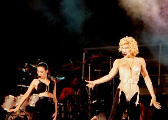 Photo taken by a fan during one of the concerts in 1990